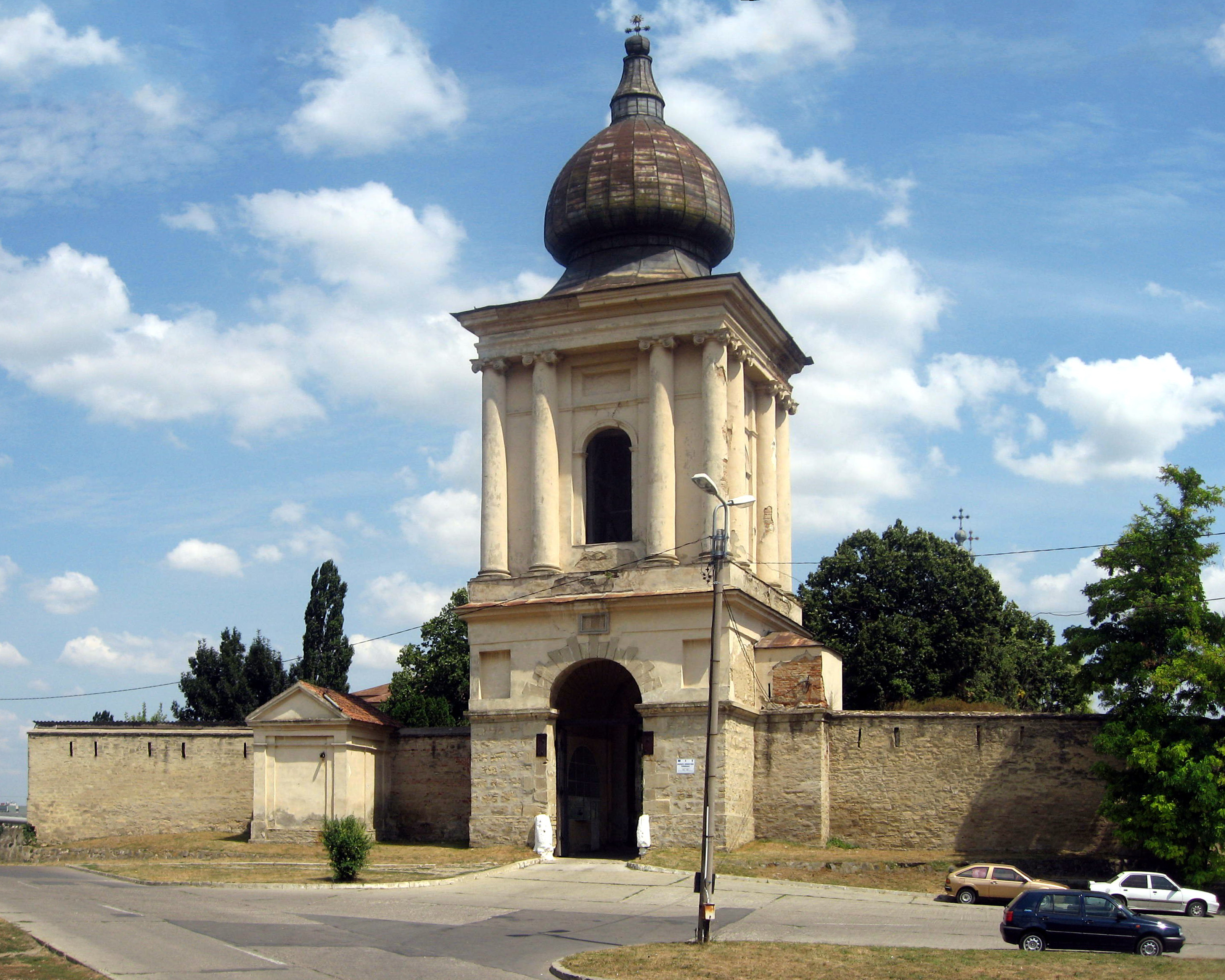 Frumoasa Monastery, Iaşi, Romania - view from the west (the bell tower and the walls)